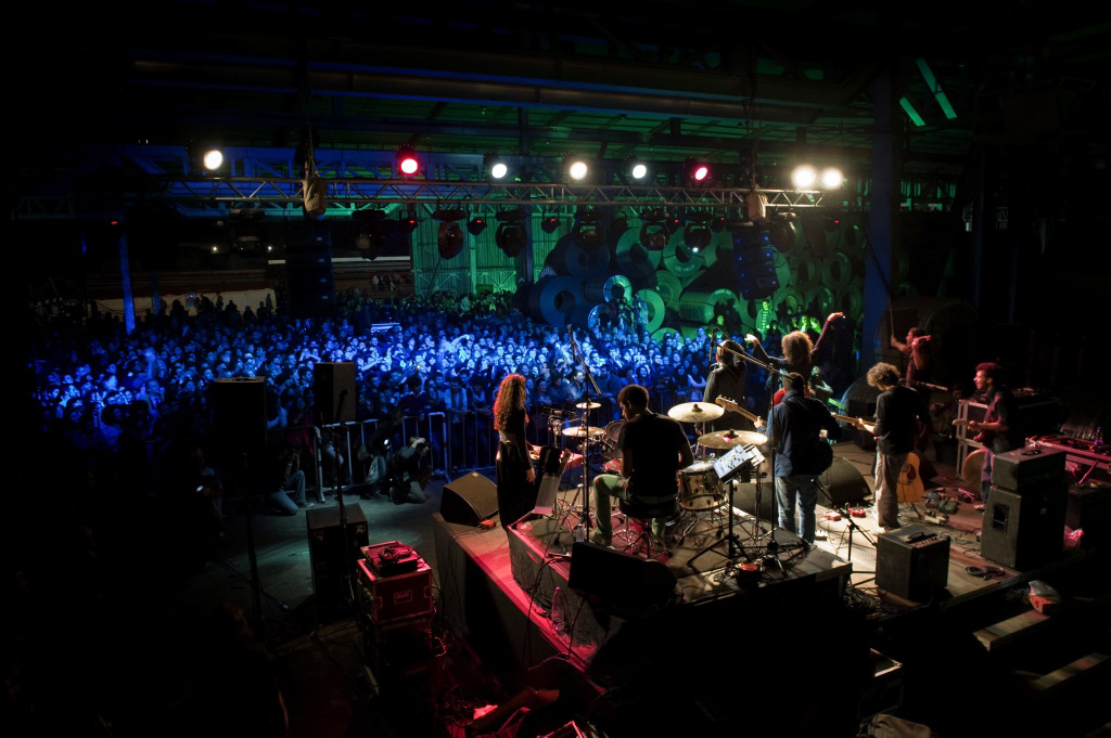 mashrou3 leila during their album release concert in december 2009 at Demco steel Warehoue in Beirut